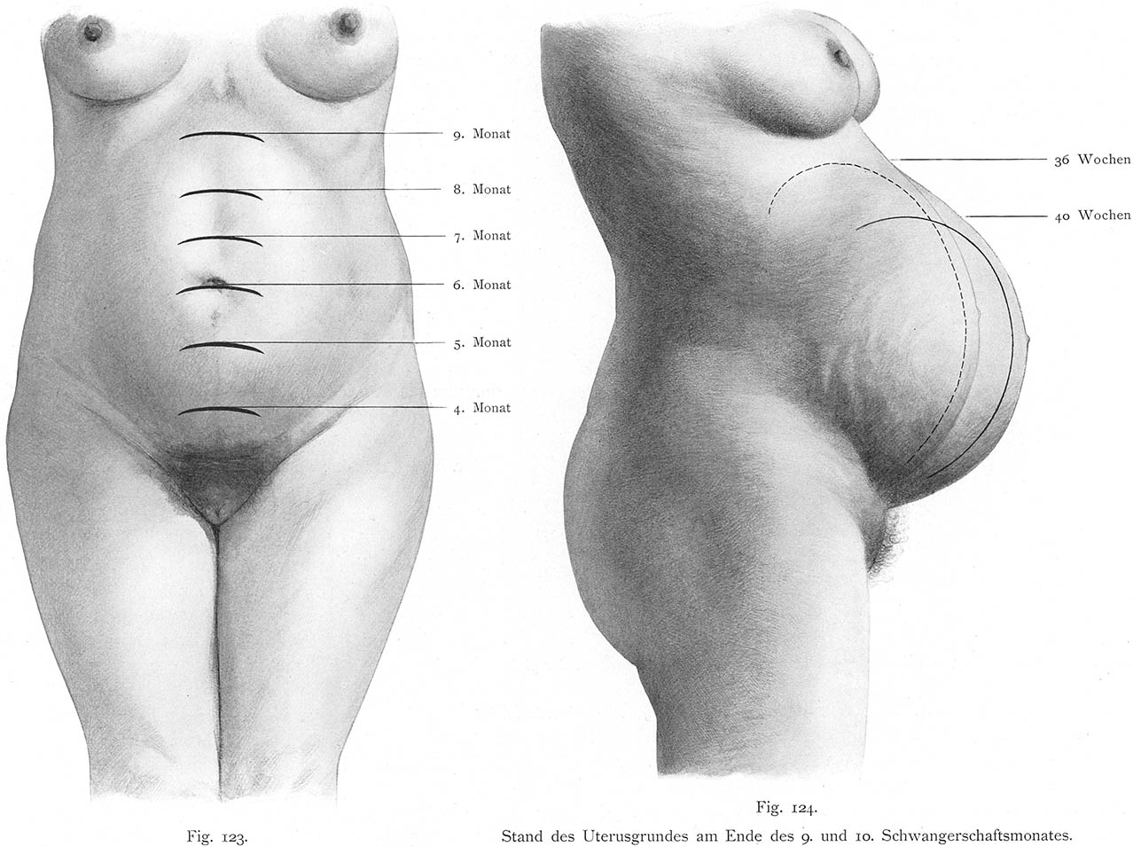 Illustration from Grundriss zum Studium der Geburtshülfe 1902